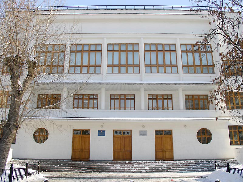 School 518, Moscow, Russia - listed postconstructivist memorial building